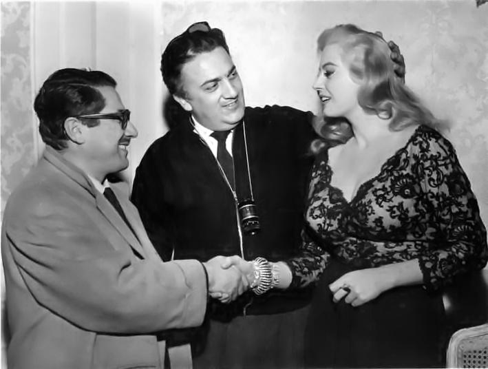 Ennio Flaiano, Federico Fellini, and Anita Ekberg during the making of La Dolce Vita (The Good Life) (1960)